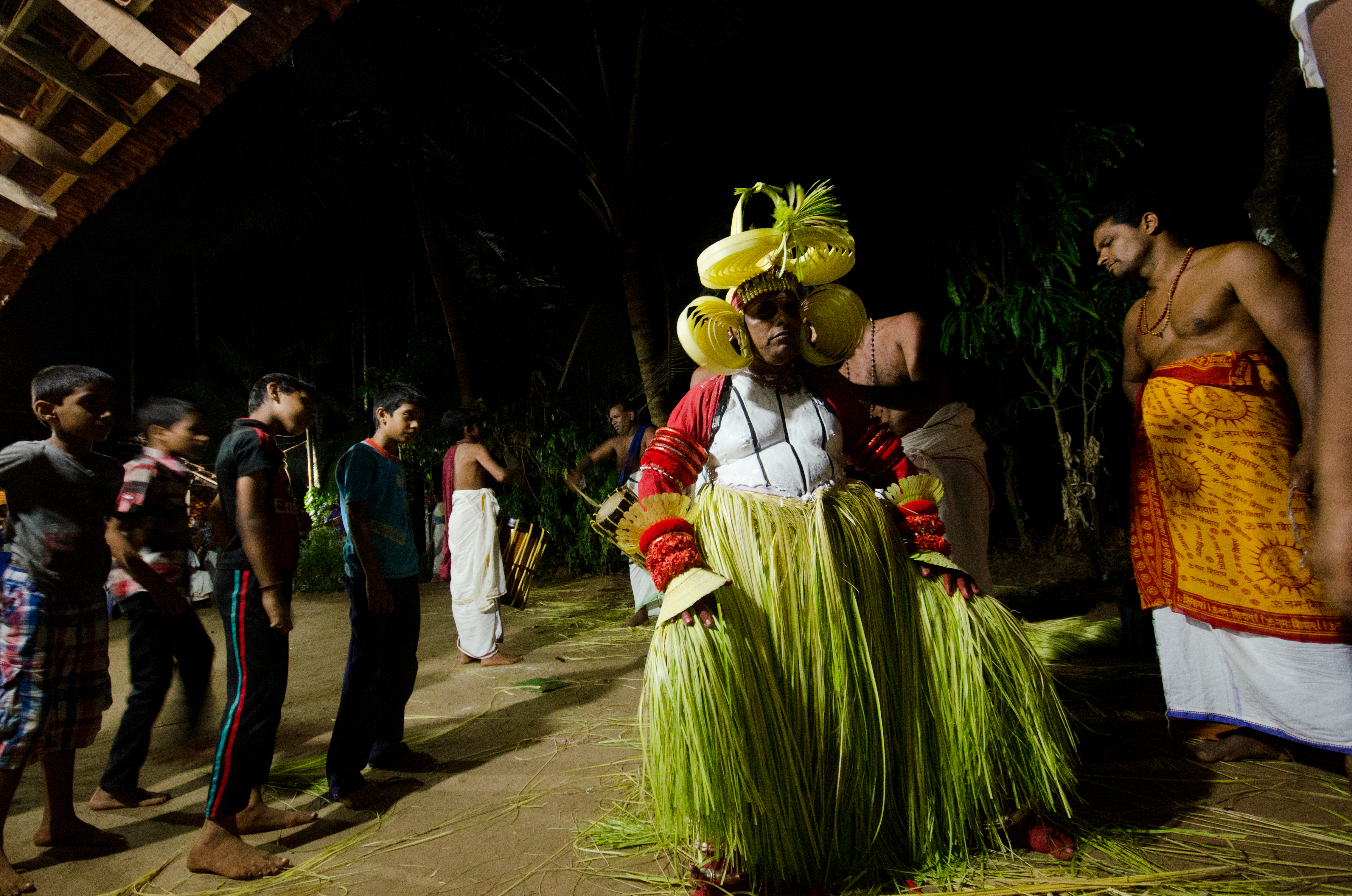 Pottan theyyam wears a crown and waist dress made of tender leaves of coconut. Also rice dough is applied on the body along with mask on face.Taken from Peringeth Tharavadu,Cheruvathur,Kasarkod district Kerala, India.